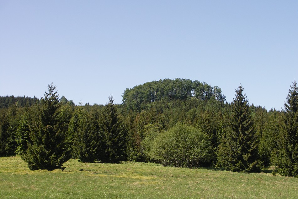 Stožec Mountain, Lusatian Mountains, Czech Republic